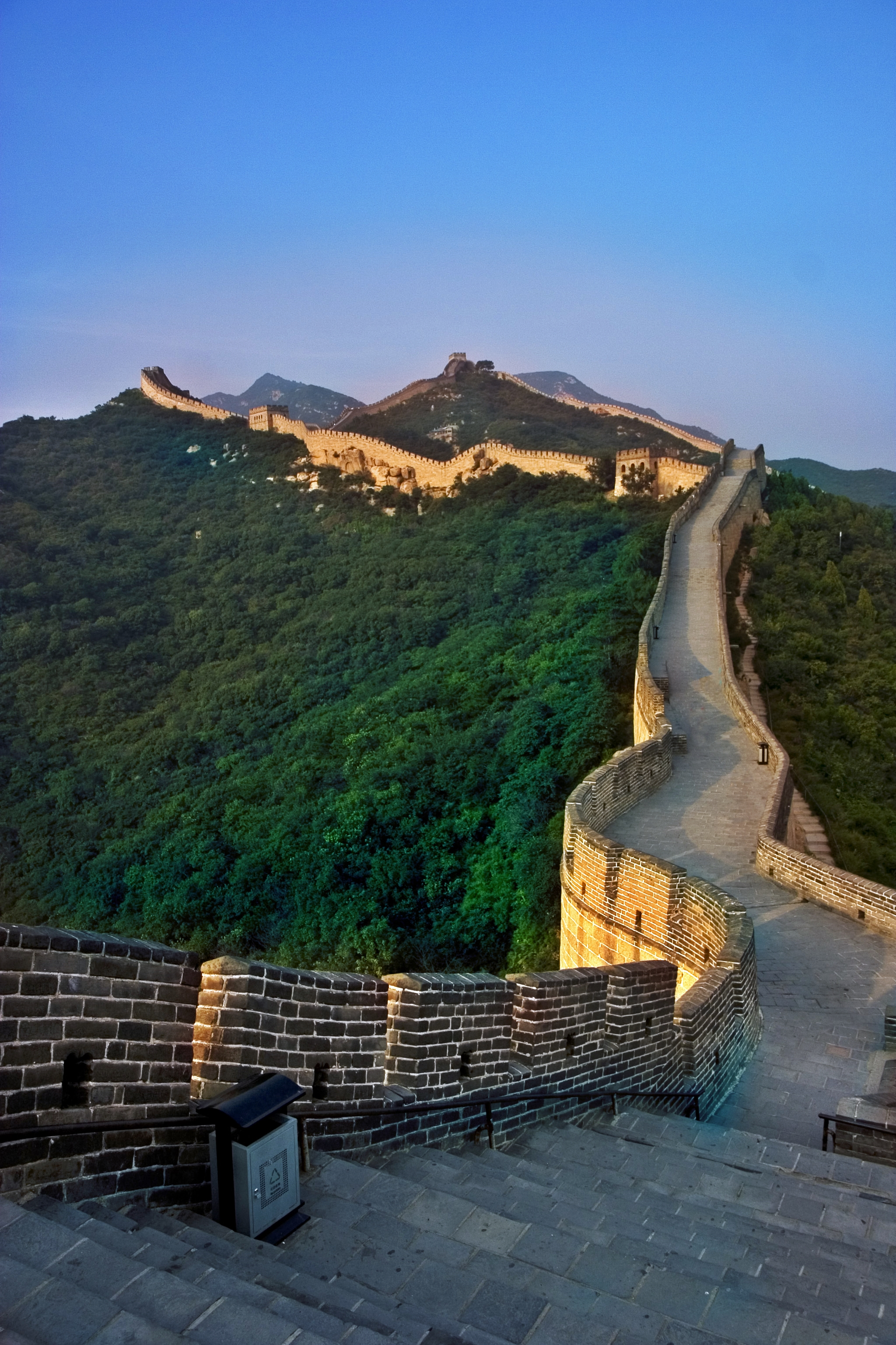 The Great Wall of China, Badaling Section